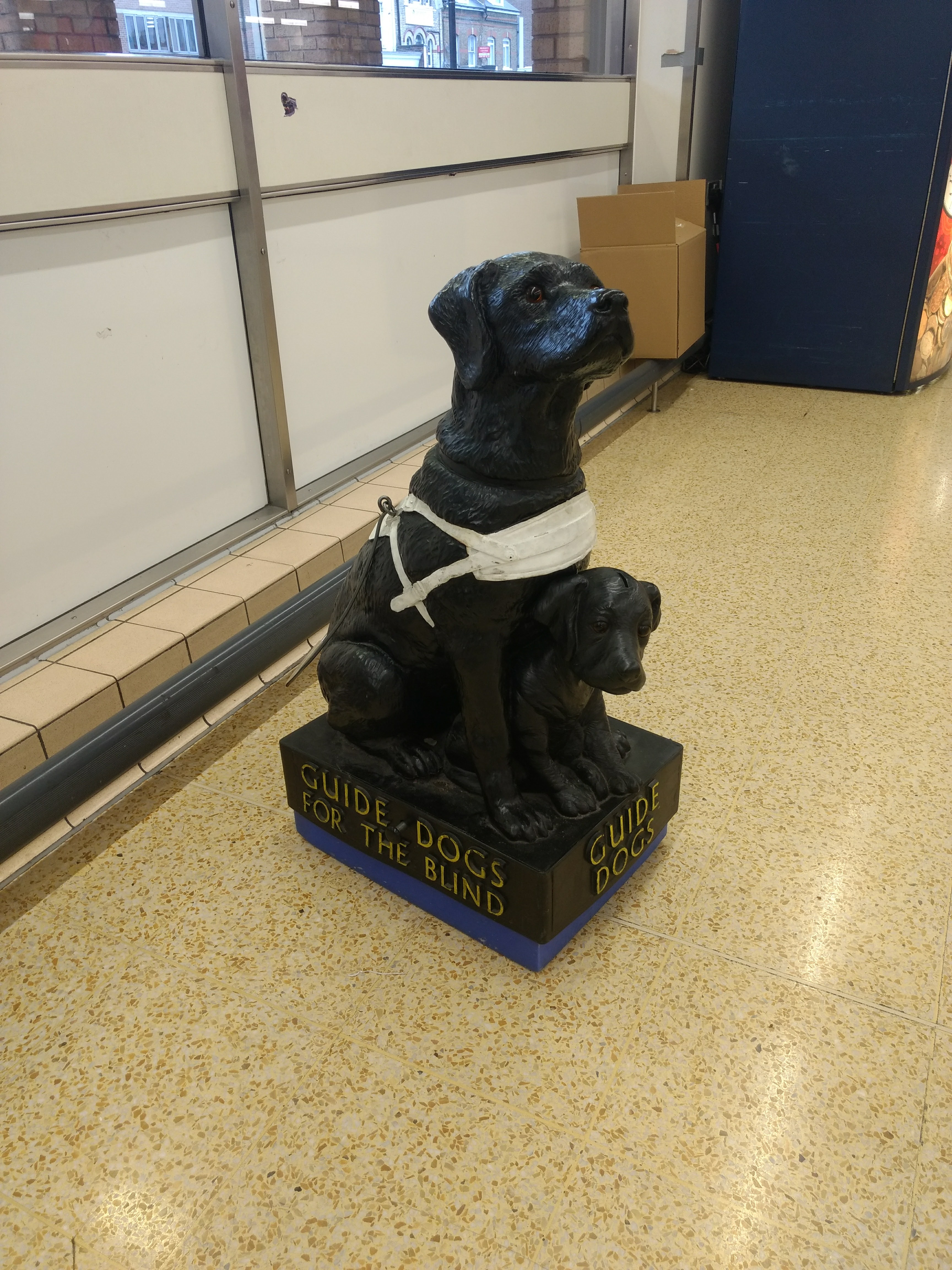 London